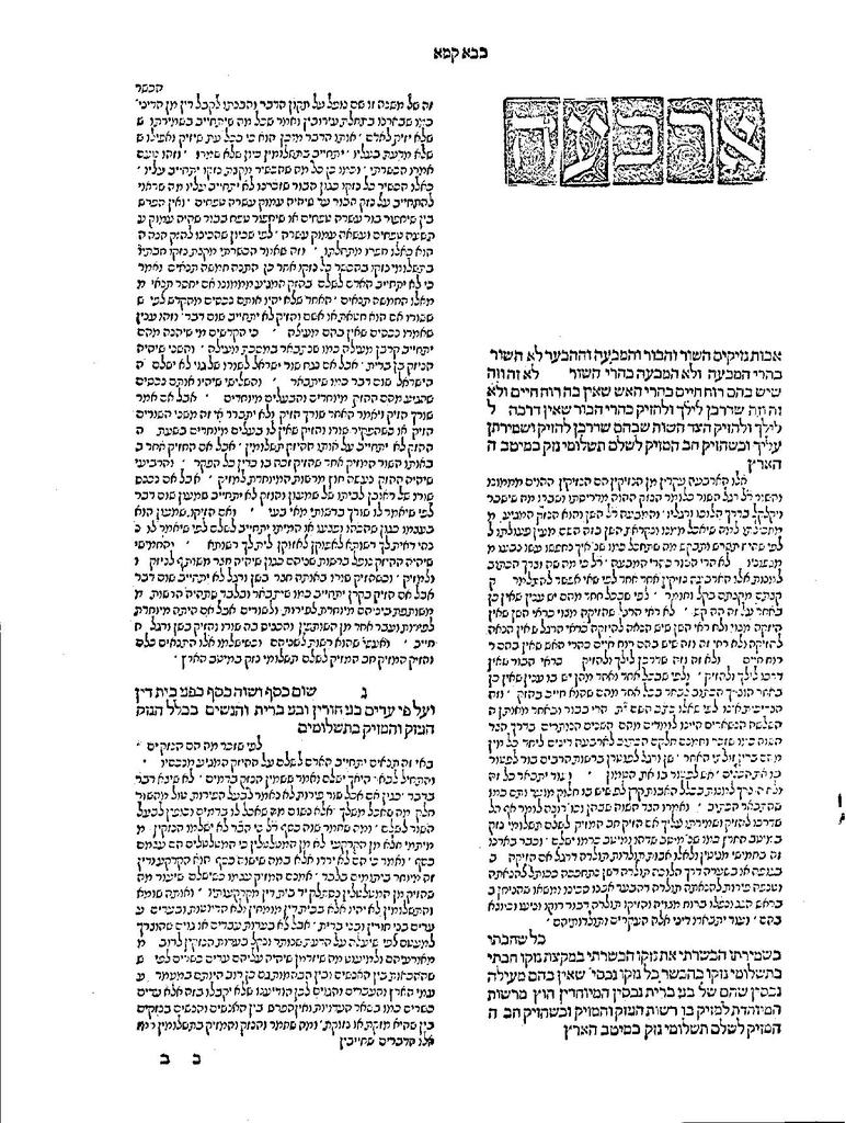 First ever known copy of the Mishnah printed in Naples Italy 1492. The larger text is the actual Mishnah text believed to be redacted 1300 years earlier, in Israel. The commentary is of Maimonides.